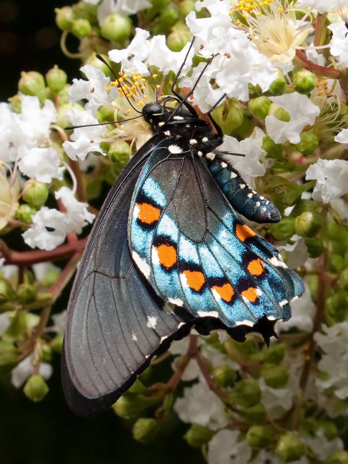 Pipevine Swallowtail (Battus philenor) butterfly in Nashville, Tennessee